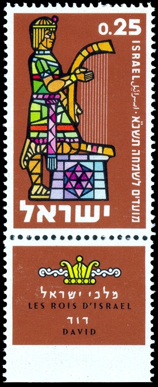 Joyous Festivals 5721 stamp - 0.25 Israeli lira - Kings of Israel: David.